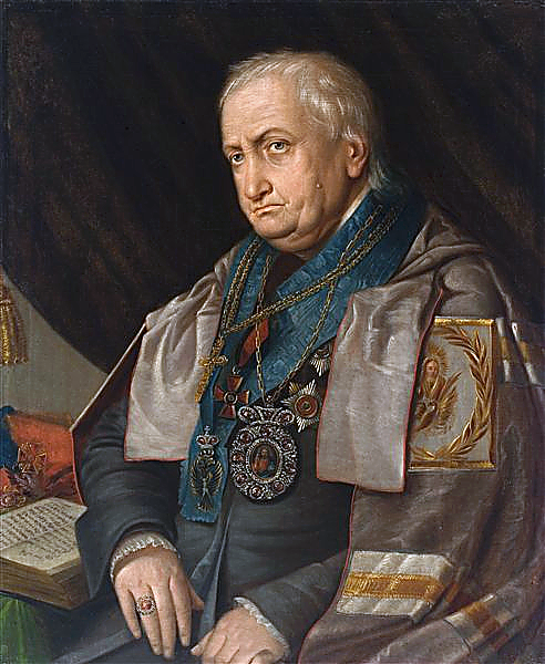 Jozafat Bułhak